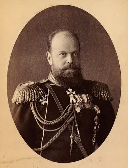 Emperor Alexander III – Russian Imperial Family Photo